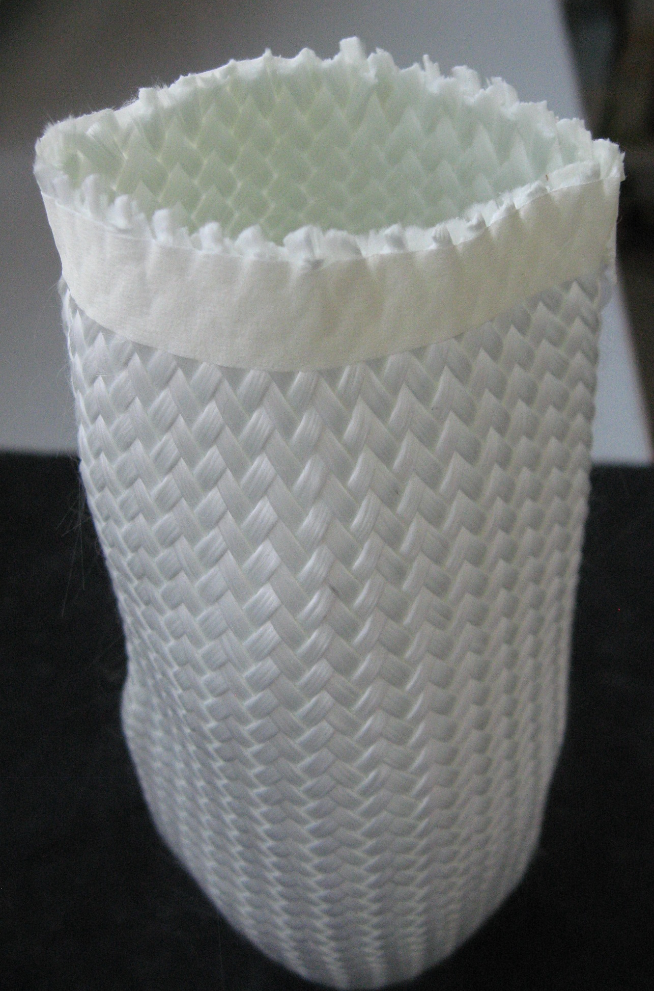 Braided tube made of glass fibres